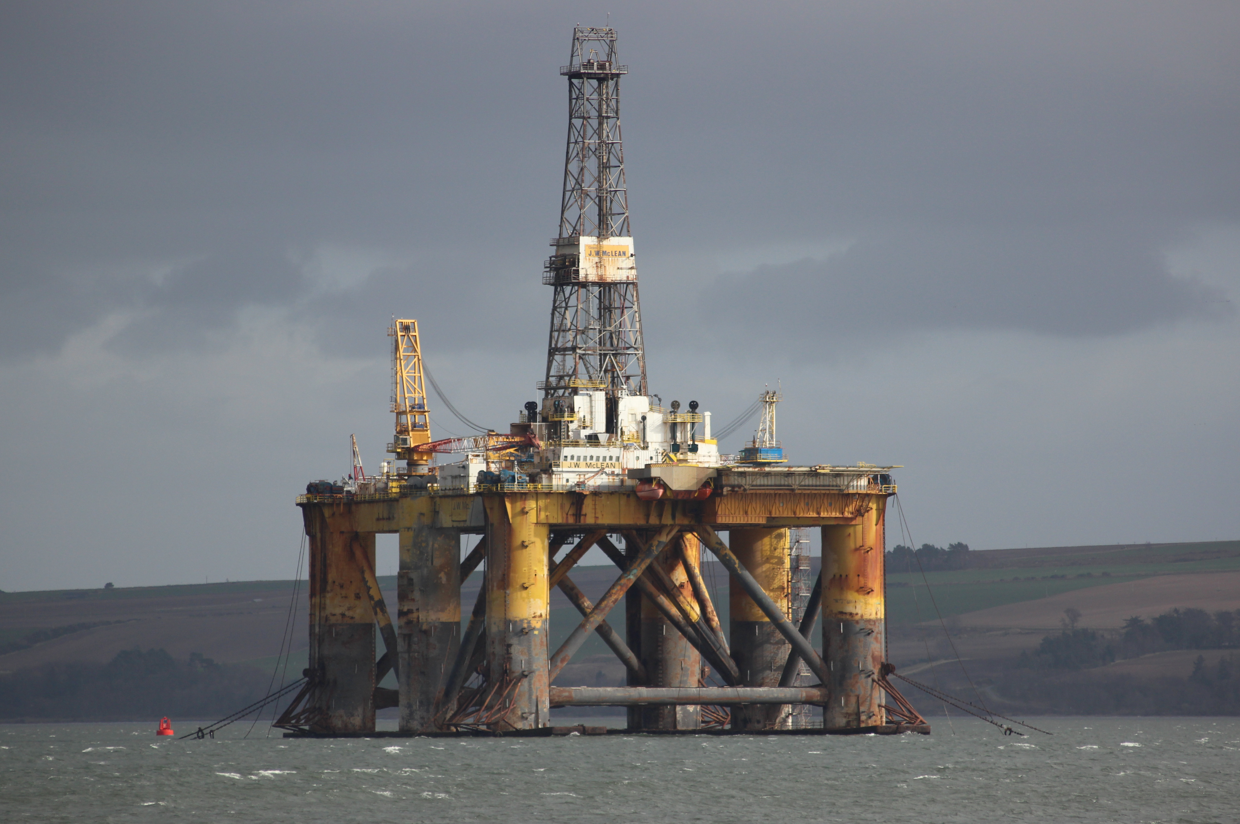 JW McLean